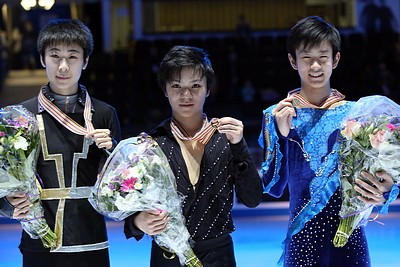 Jin Boyang (2), Shoma Uno (1), Sota Yamamoto (3) at the 2015 World Junior Figure Skating Championships